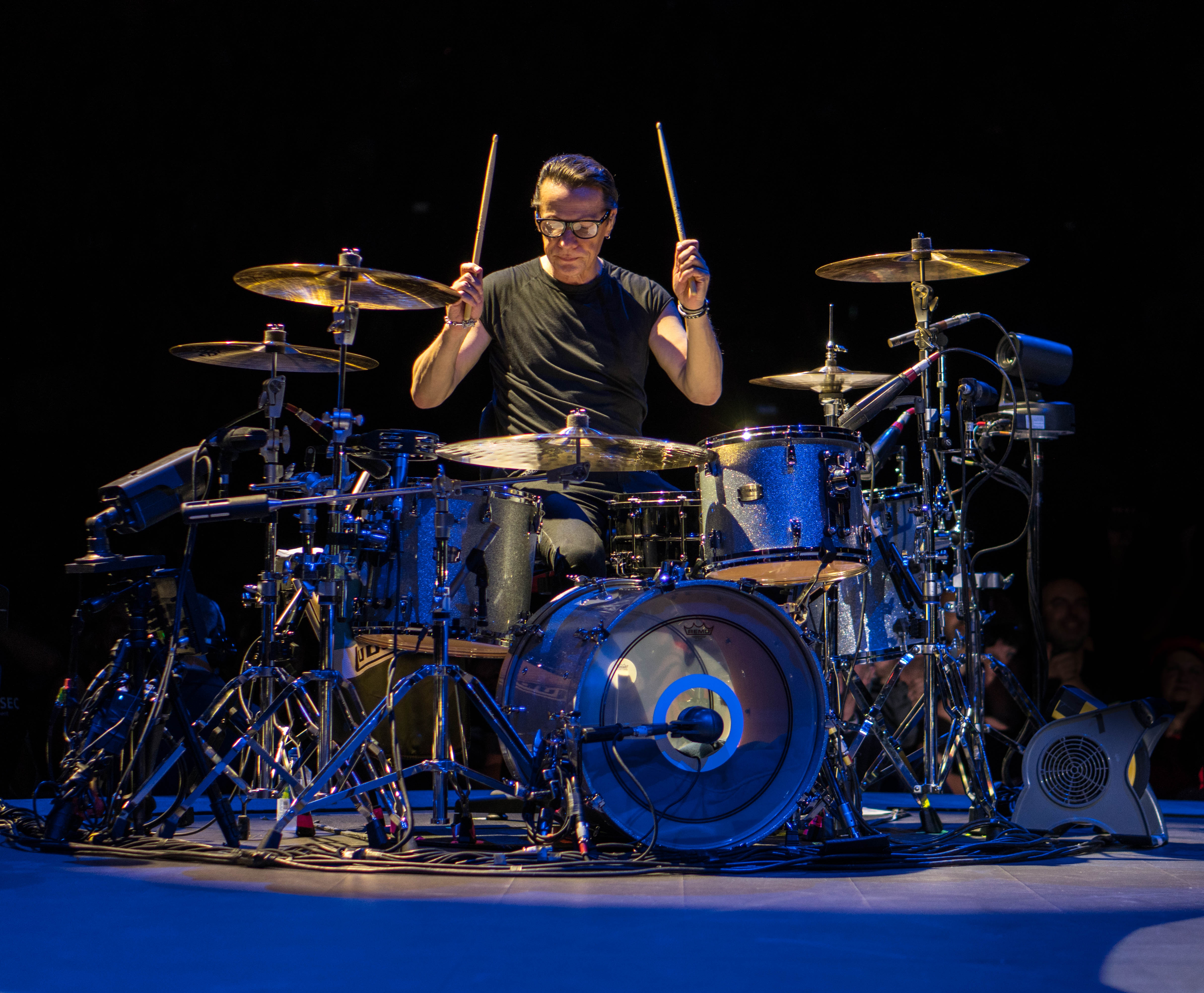 Irish rock band U2 performing at Manchester Arena in Manchester, England, on October 20, 2018, during the band's Experience + Innocence Tour